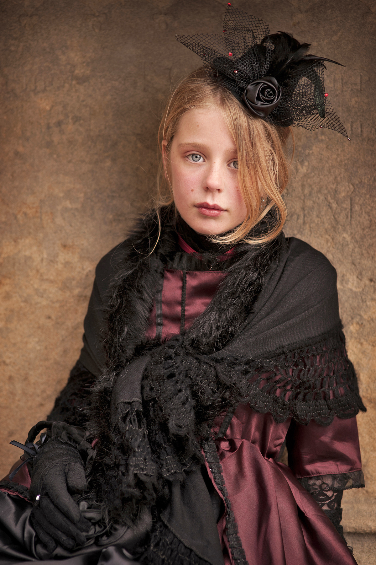 Portrait photograph of a young girl wearing Victorian-style clothing during an appearance at the Whitby Gothic Weekend festival.